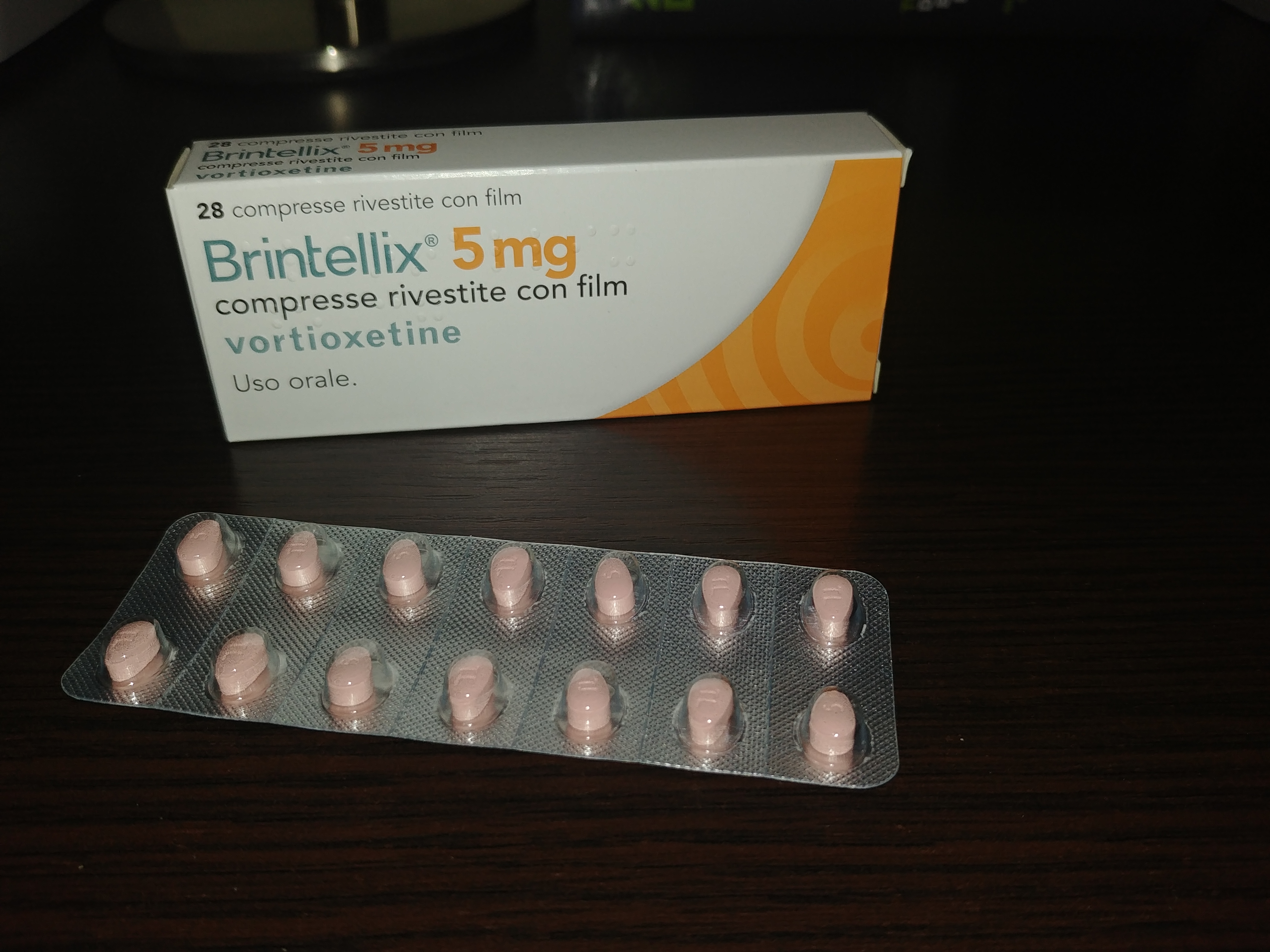 Brintellix (Italian packaging, 5 mg vortioxetine tablets), a medication that is prescribed to treat major depressive disorder (MDD).